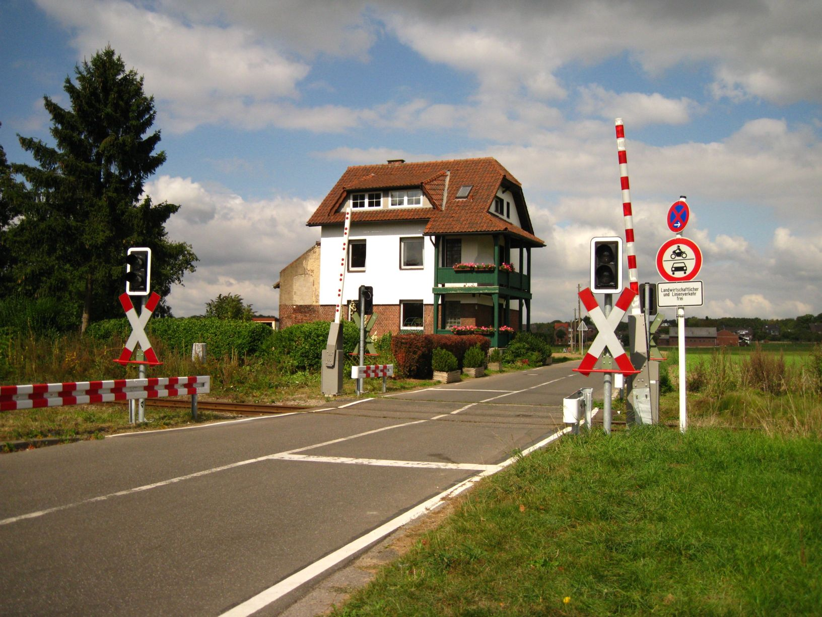 Modernized level crossing in western Germany at the railway line Dalheim-Mönchengladbach Hbf with new LED-technique from Scheidt&Bachmann.